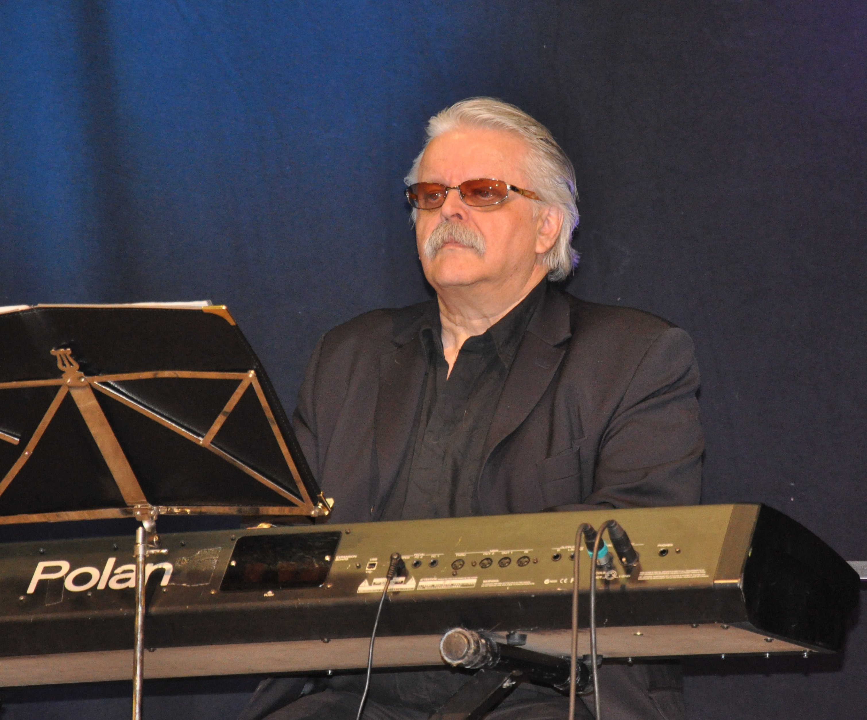 Finnish musician Pedro Hietanen playing keyboards at the Jyväskylä Book Fair 2009.